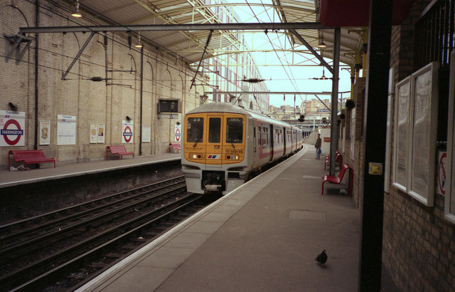 Farringdon station The western pair of tracks are used by National Rail Thameslink services which operate between Bedford and Brighton. At this station, the changeover is made (passengers do not even notice) from the 25kV A/C overhead, used north of London, and the Southern 750V D/C third rail. Using these dual-fitted Class 319 trains, it only takes a few seconds.